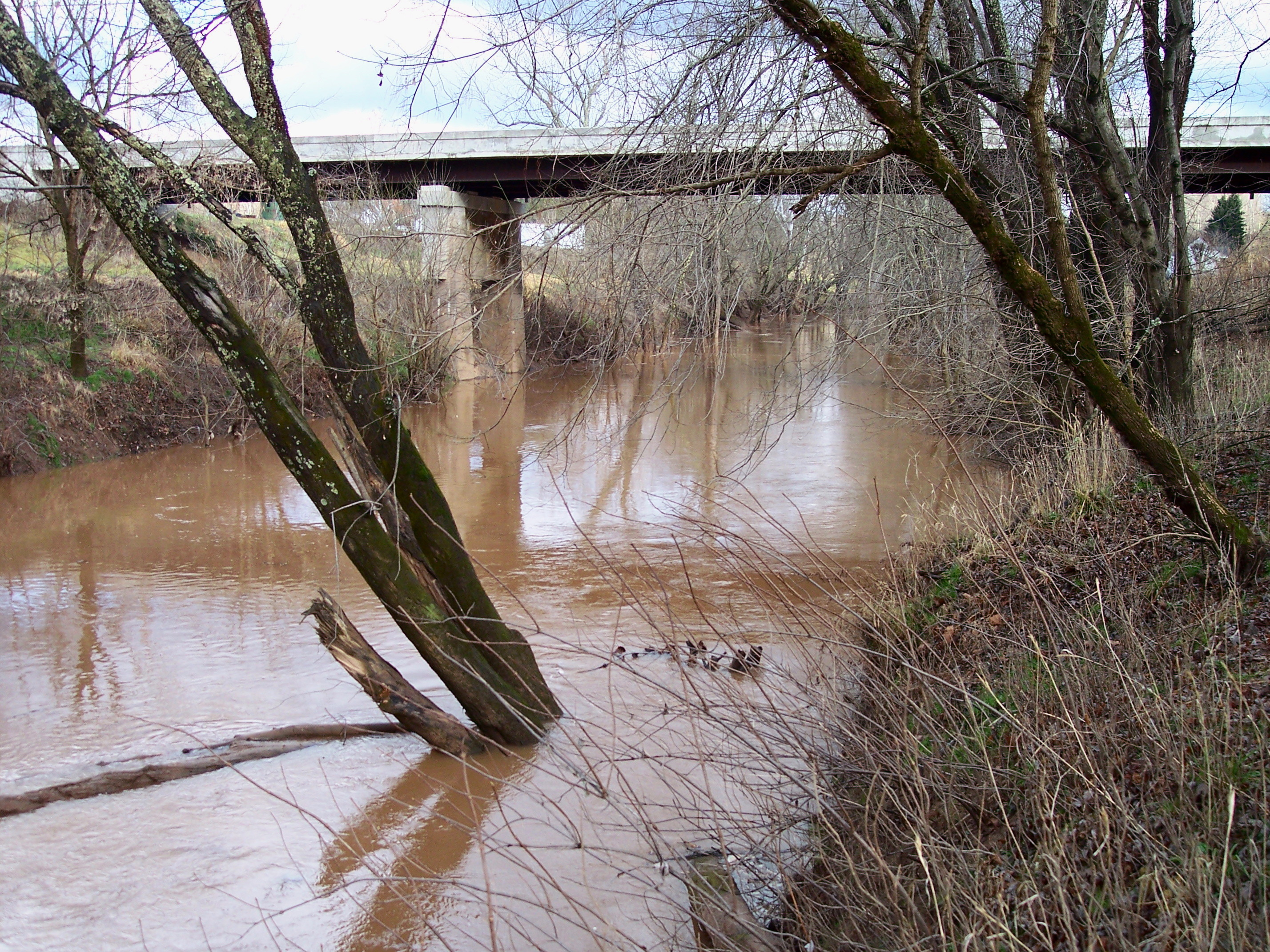 Leading Creek as viewed upstream from its mouth, at a West Virginia Division of Natural Resources public access site along the Little Kanawha River in Gilmer County, West Virginia. The bridge is West Virginia Route 5.